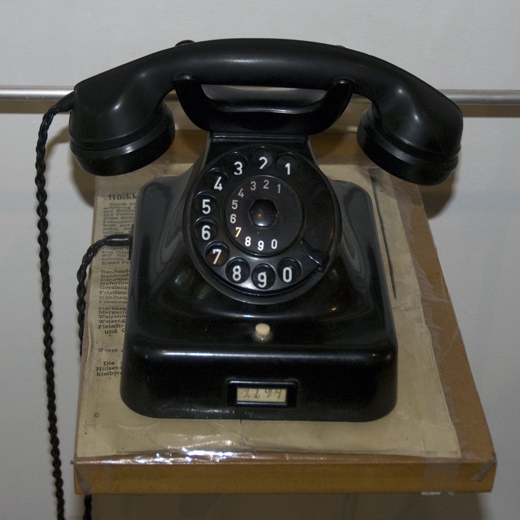 Old telephone